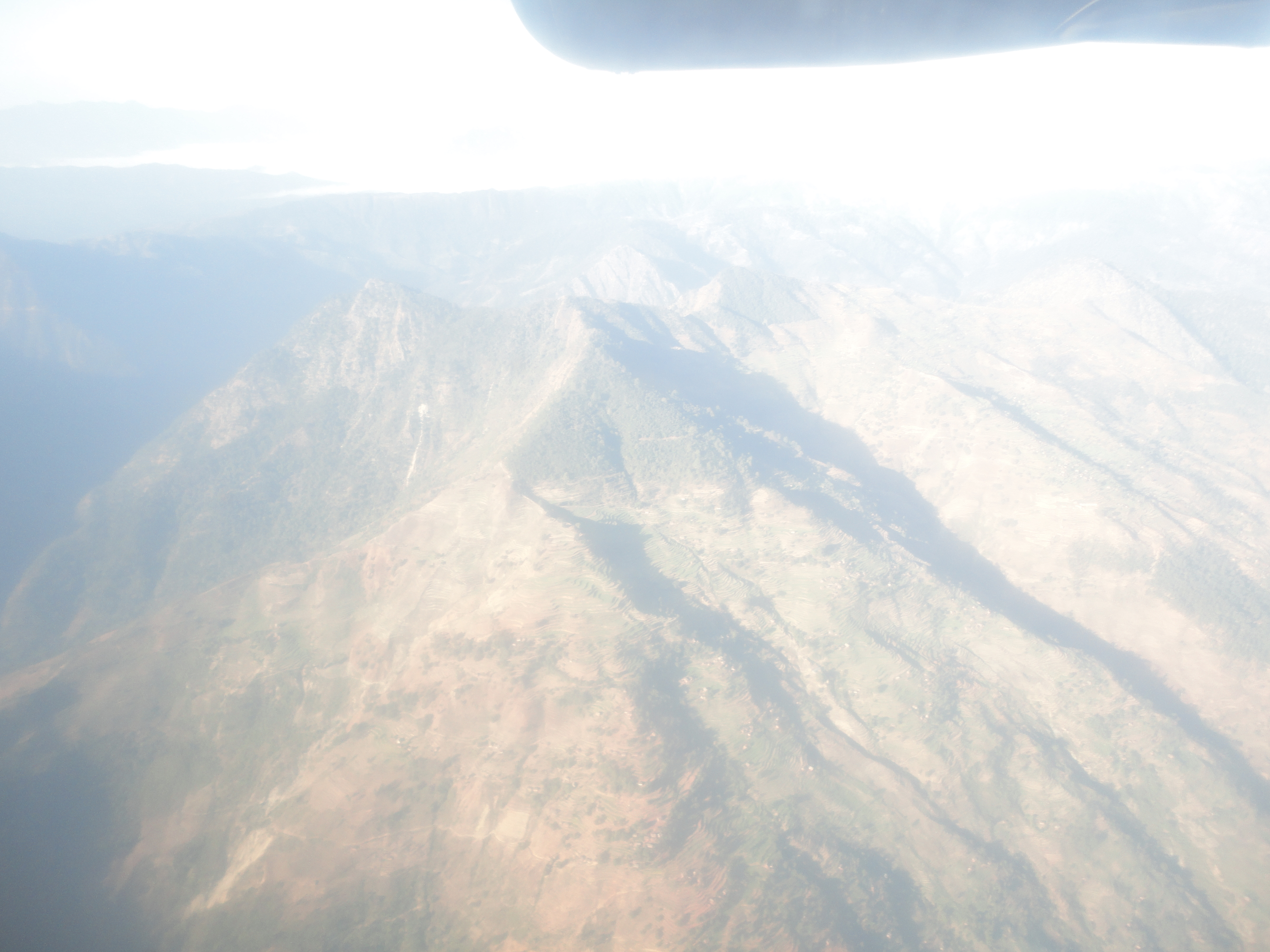 Aerial view of Dailekh District (Mid Westrn Nepal) on the way to Surkhet from Humla.